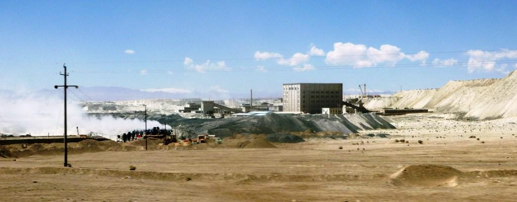 Mine in Tsaidam desert June, 2011